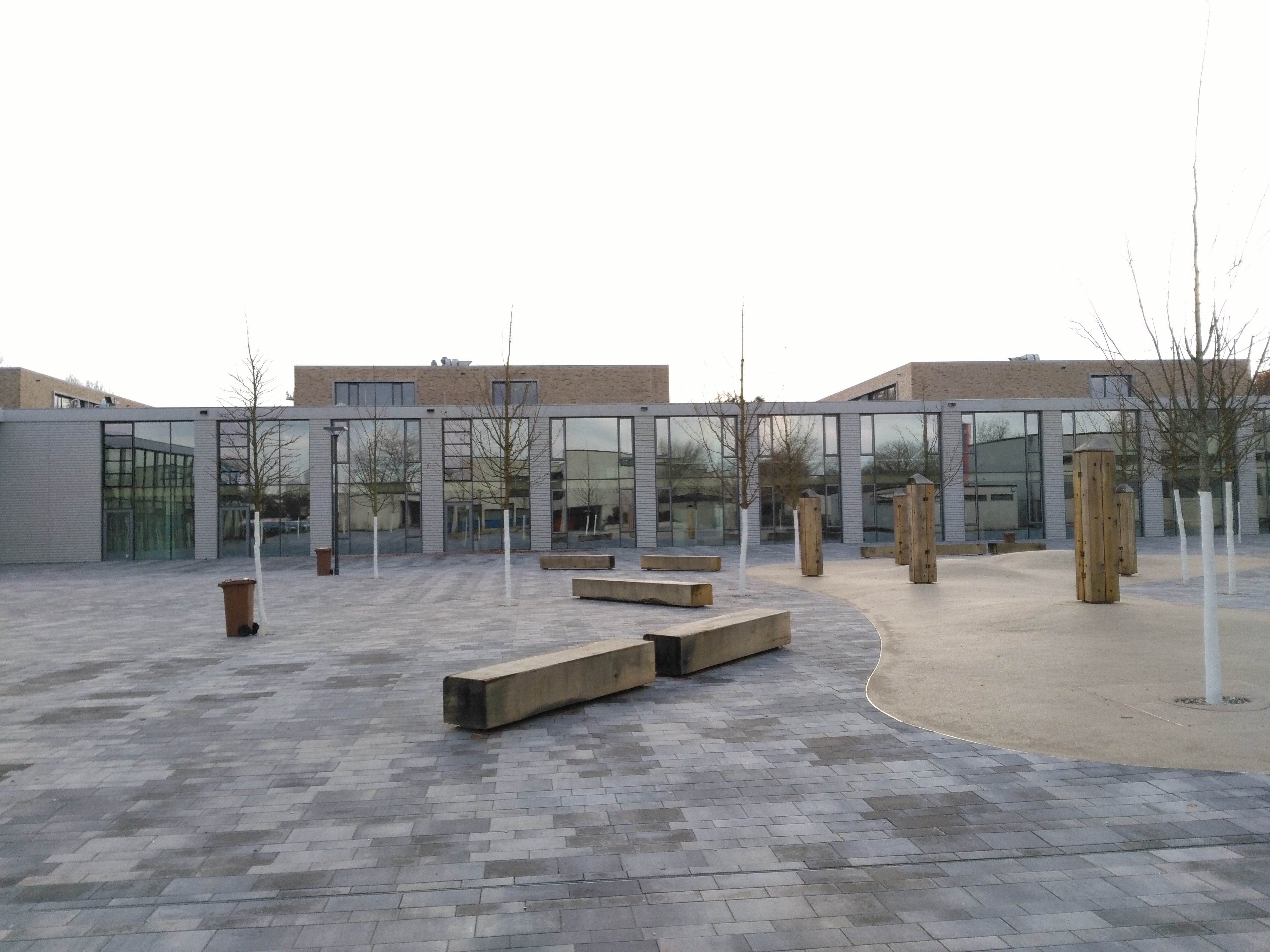 Courtyard and Magistrale